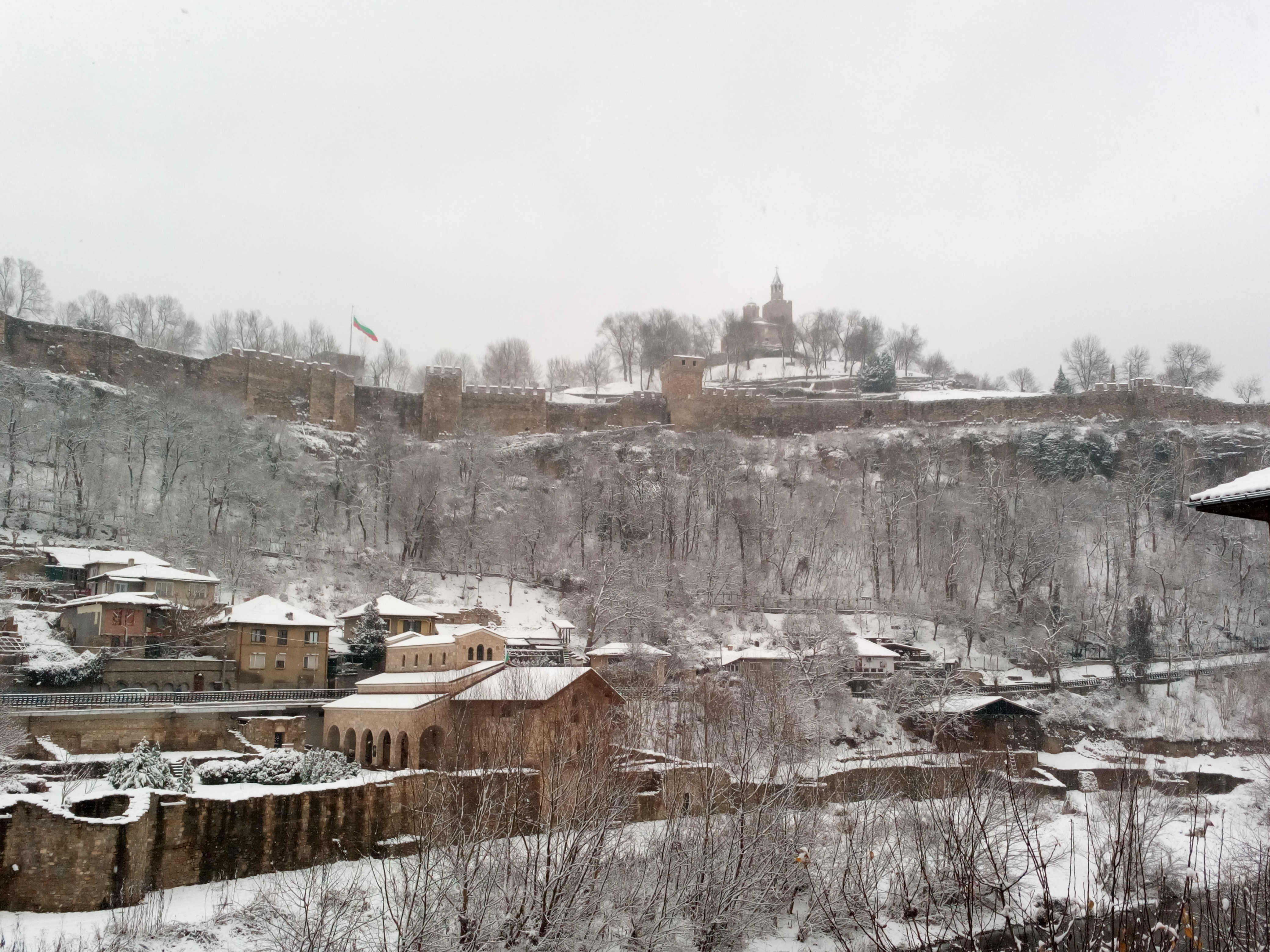 Monastery of the Great Lavra